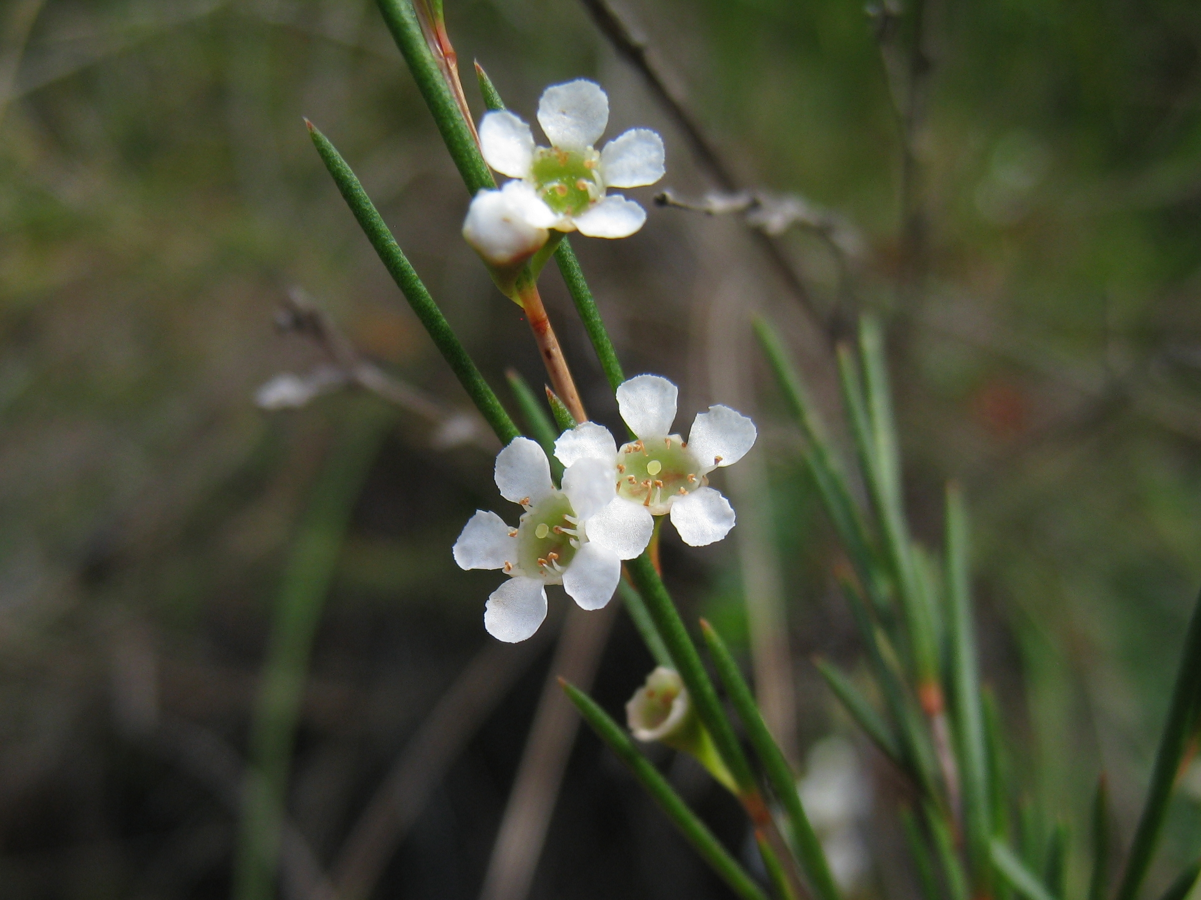 Looking up and not down, the flowers of Weeping Baeckea, Baeckea linifolia. Royal National Park, NSW Australia, March 2011.